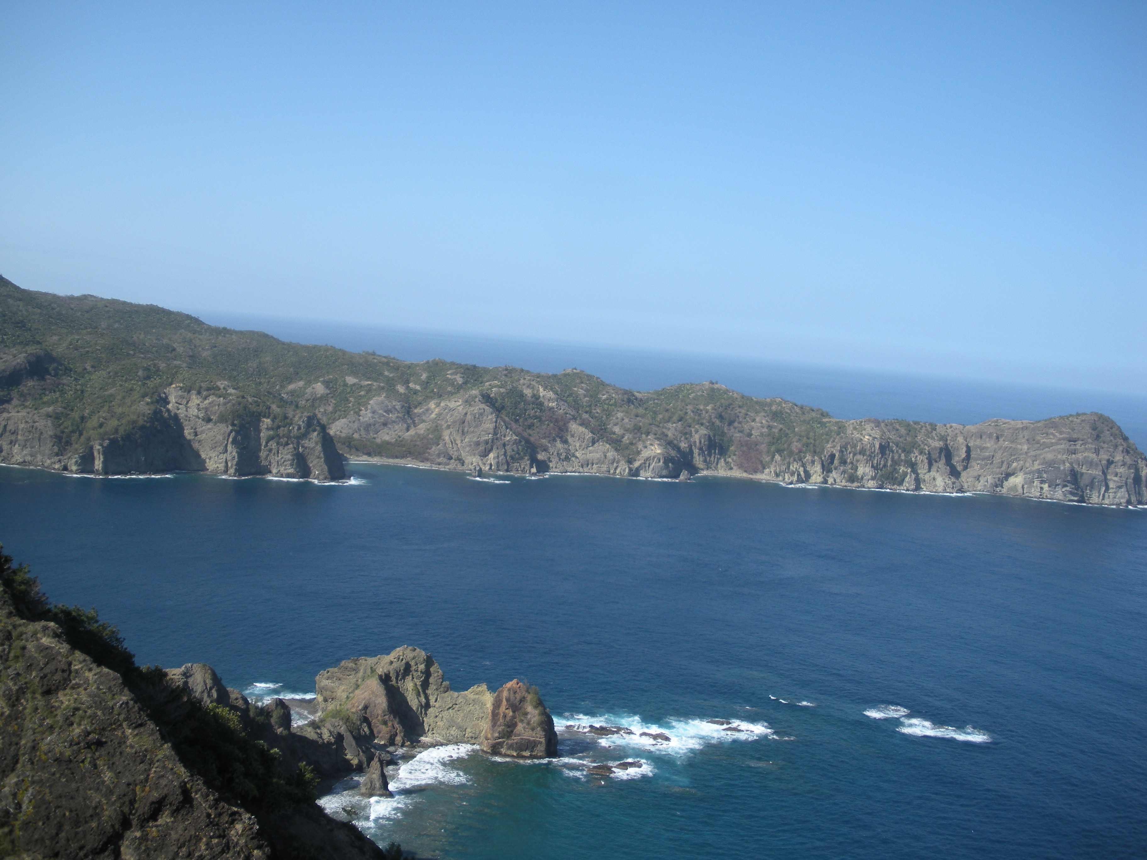 Anijima-Island in Japan Bonin Islands